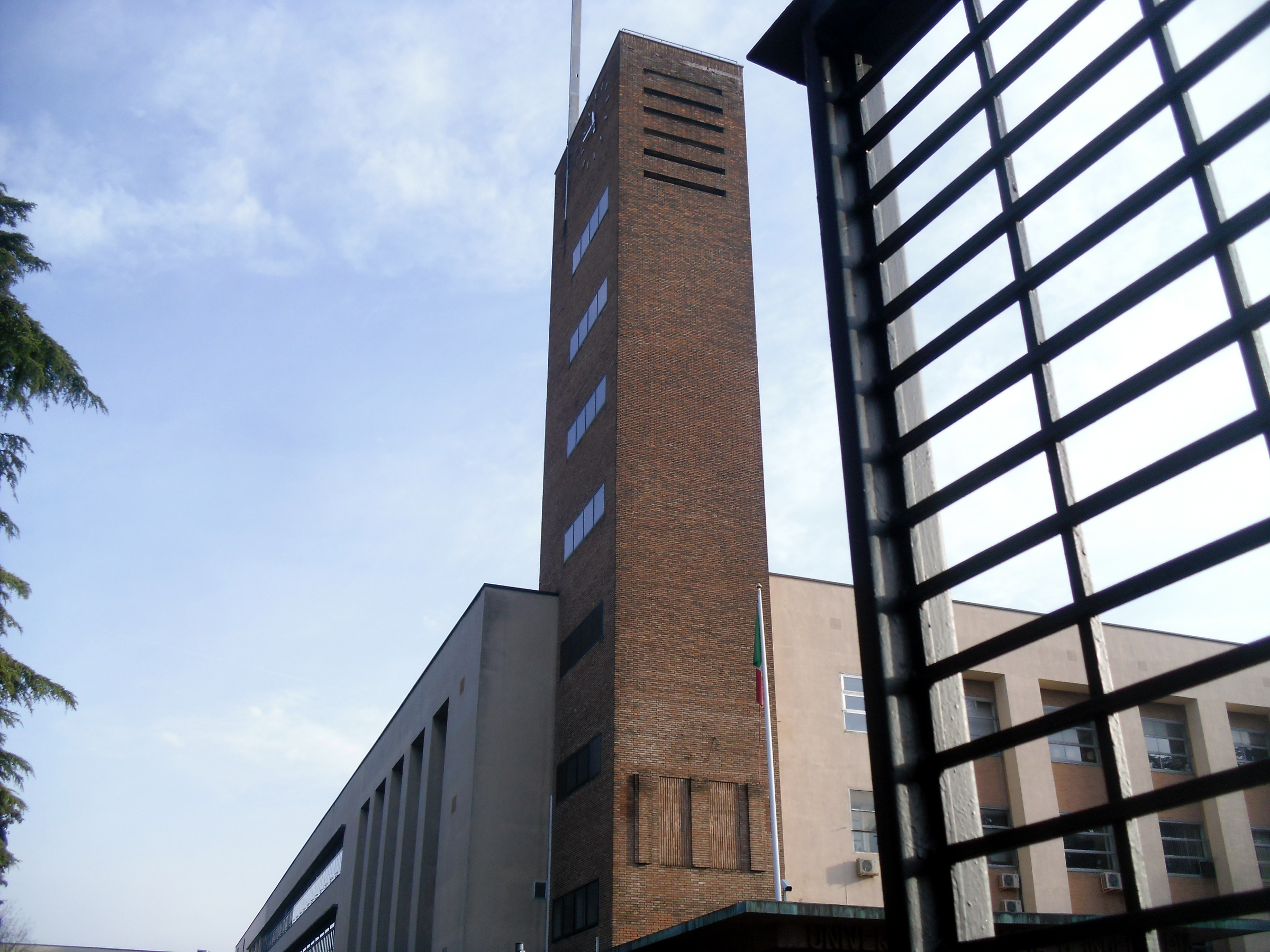 entrance to Bologna university's school of engineering (architect: Giuseppe Vaccaro)